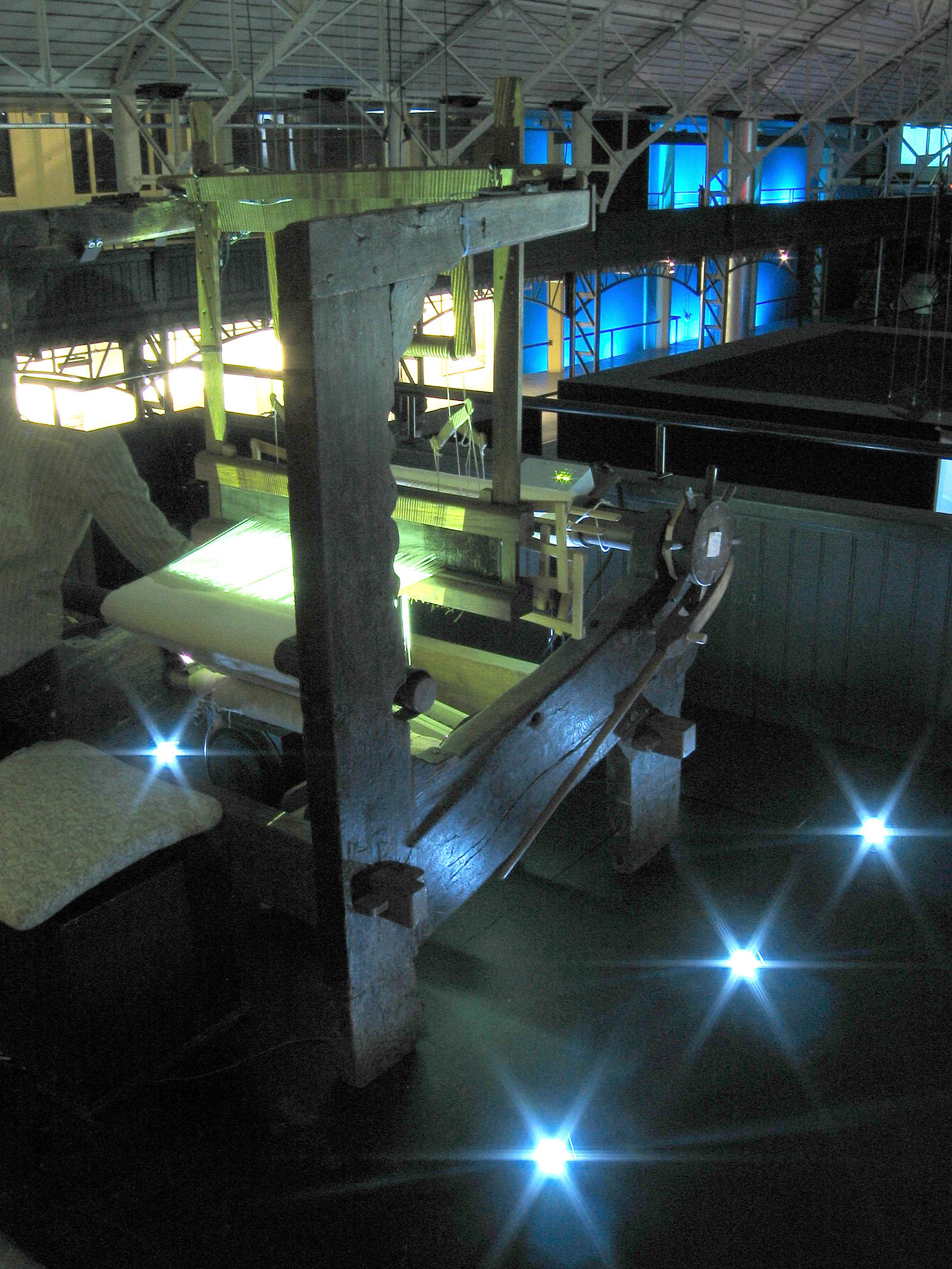 View of artwork 'Musical Loom', Le Fresnoy